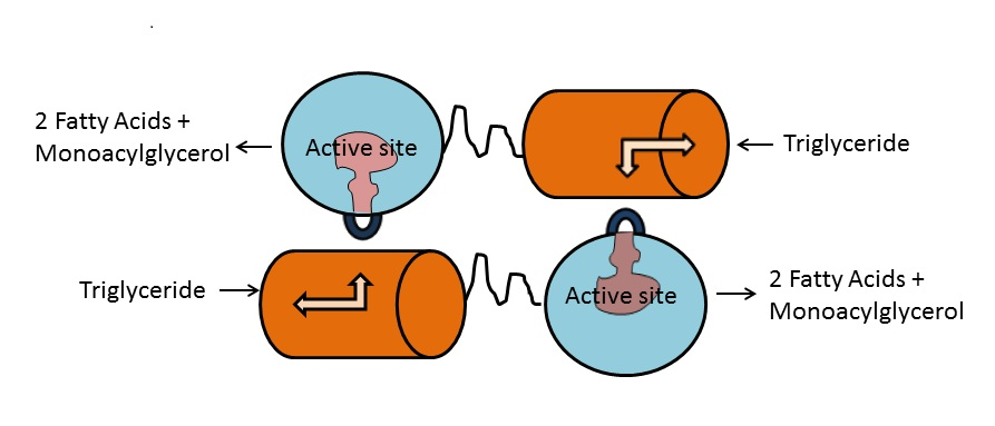 proposed structure of LPL homodimer and its lipid binding sites